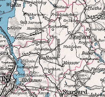 Detail from a map of Pomerania.